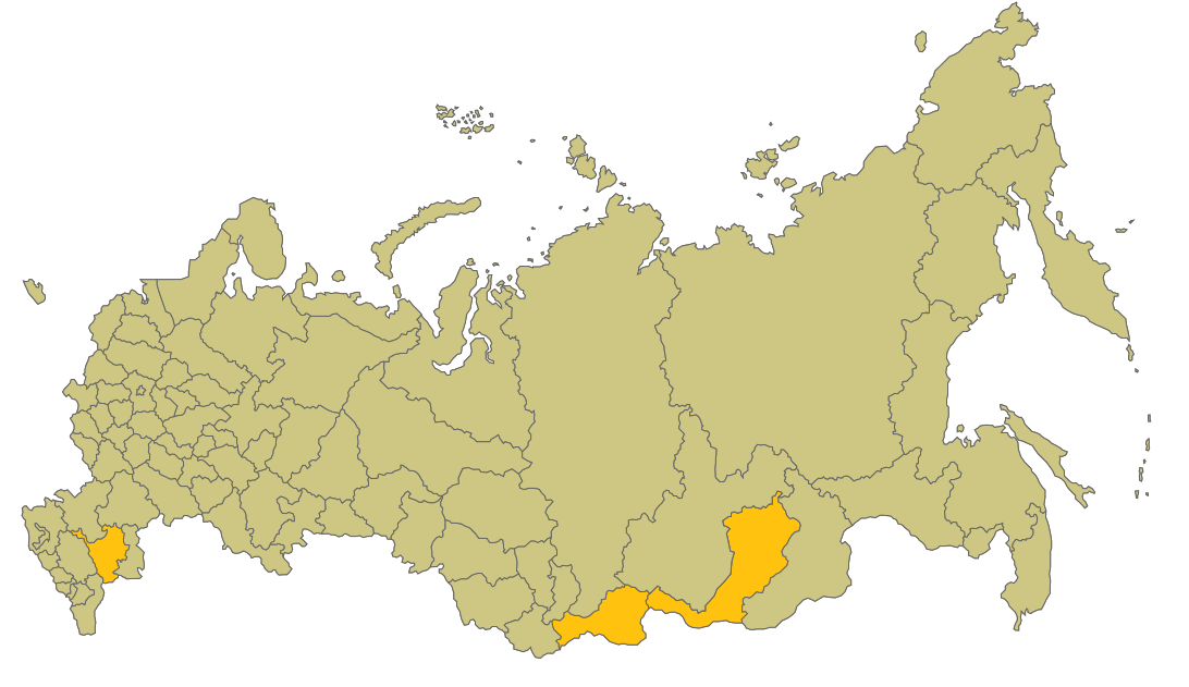 Areas in Russia with large Buddhist populations.